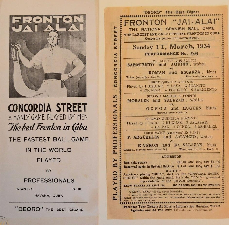 Barrio de San Lázaro, Havana_C1934-vintage program fronton-jai-alai, Havana, Cuba.